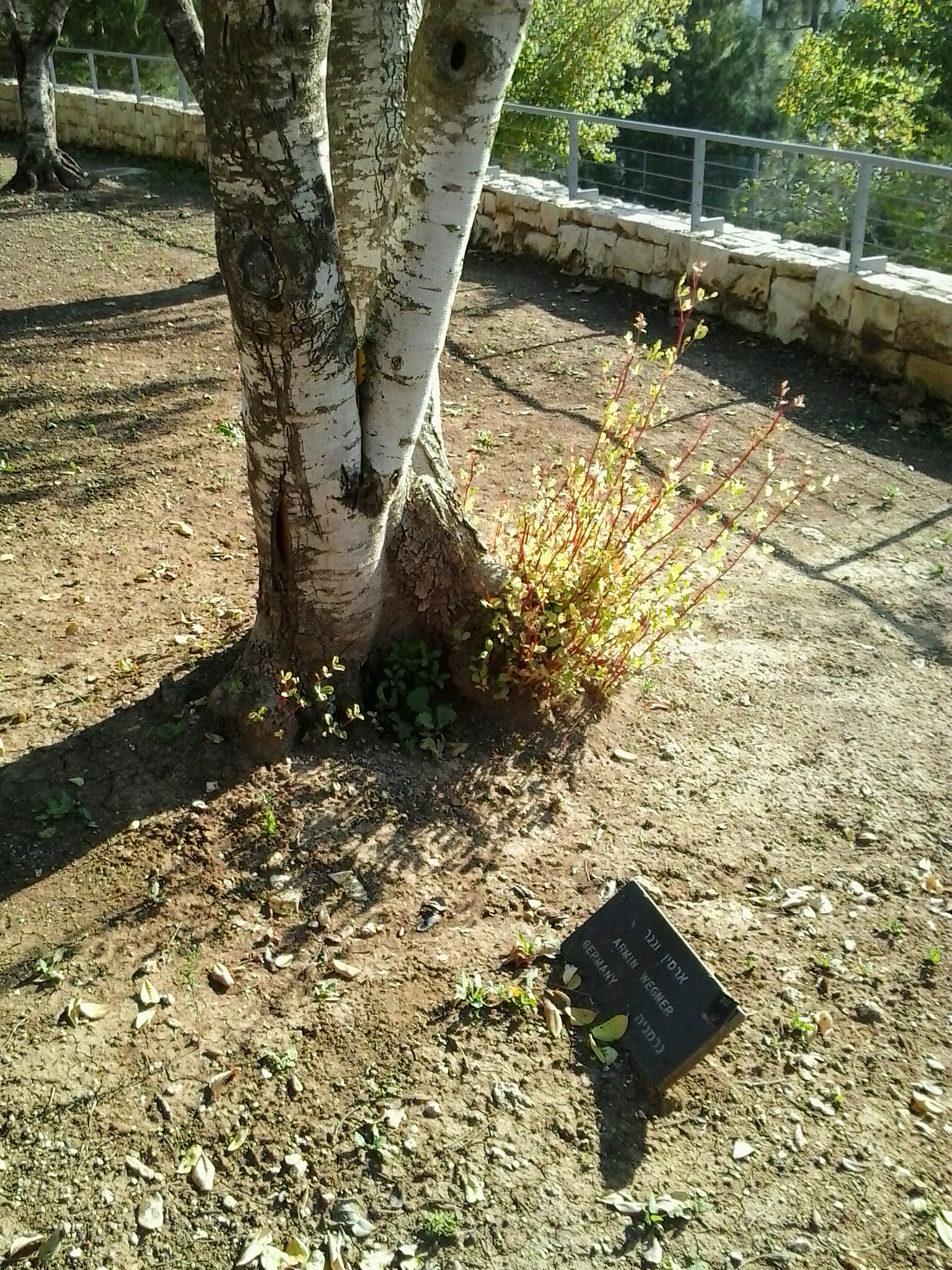 The tree planted at Yad Vashem honoring Righteous Among the Nations Armin Wegner